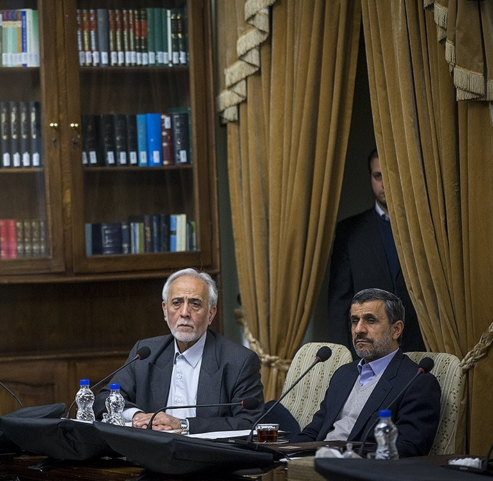 Expediency Discernment Council meeting